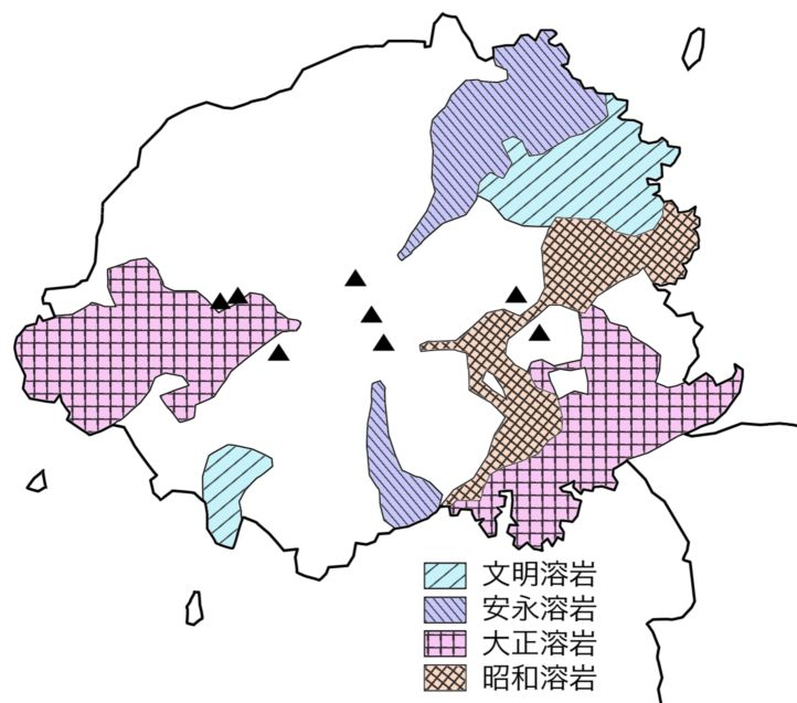 A lava fields map of Sakurajima volcano flows — in Japan.